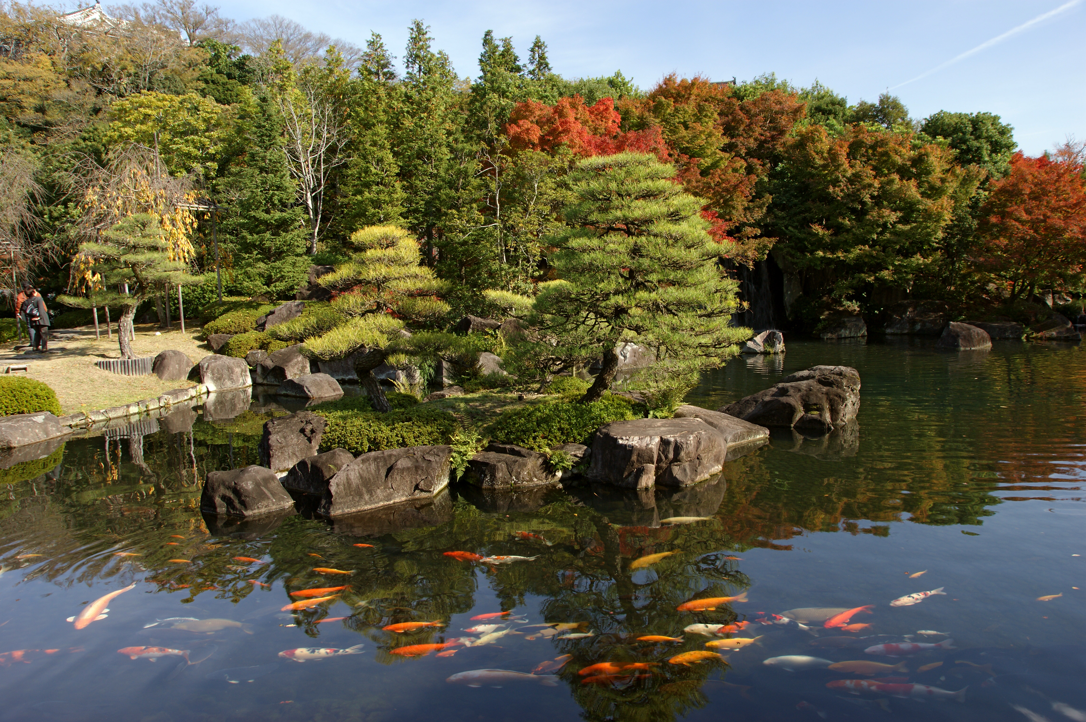 Koukoen, Himeji, Hyogo prefecture, Japan